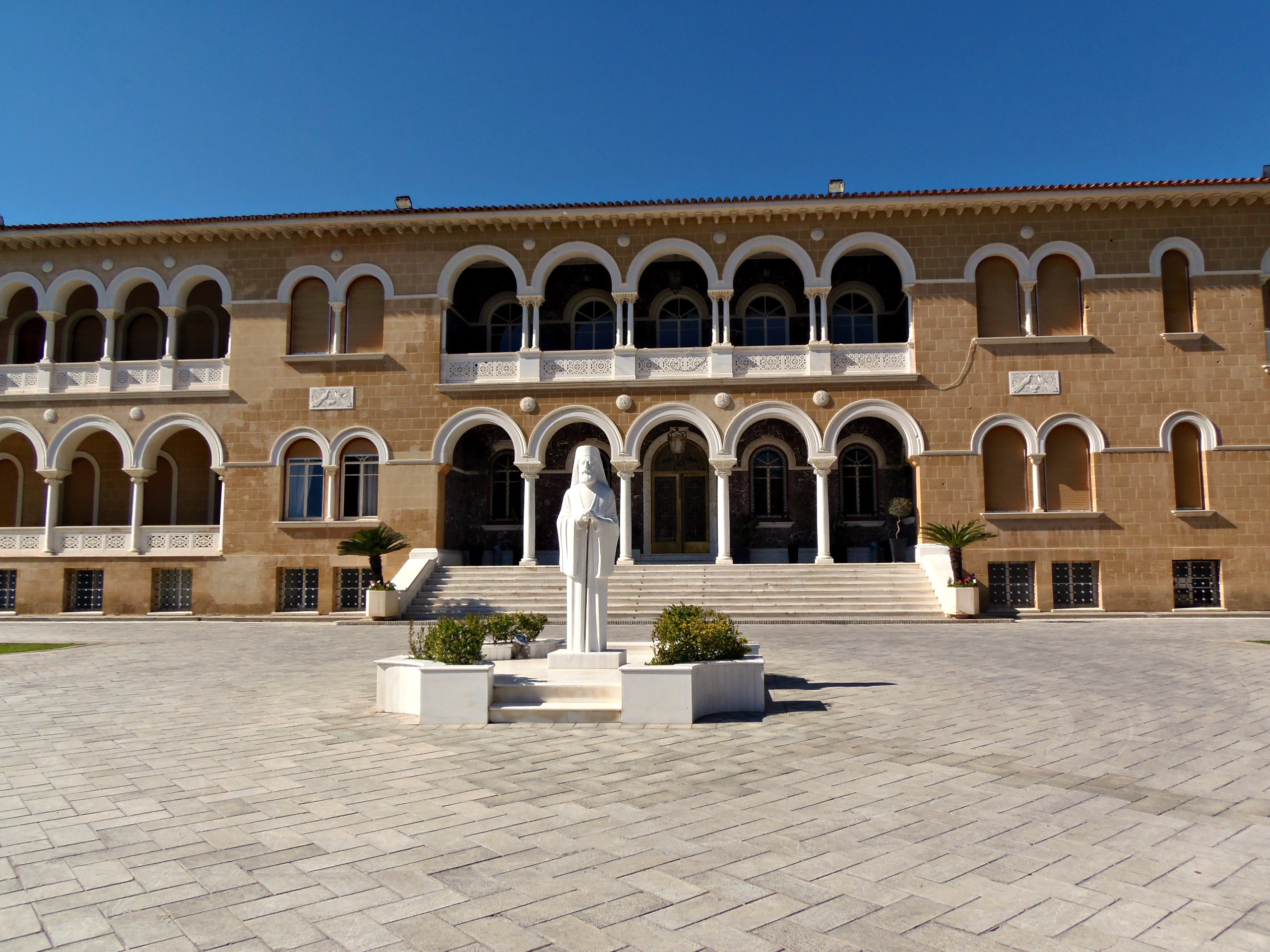 The Archbishop's palace with the statue of Makarios in Nicosia, Cyprus